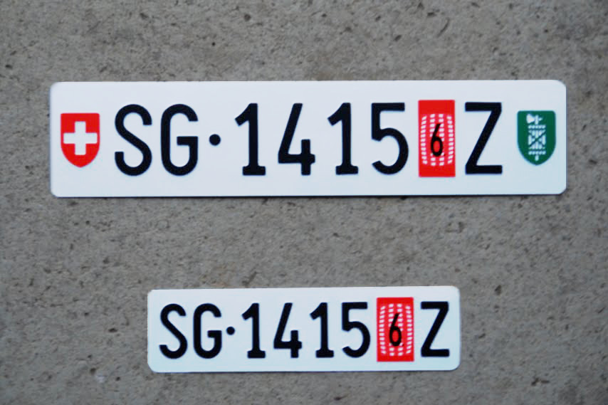 Sample of New swiss Custom vehicle plates, issued in 2013, validity till June 2014.